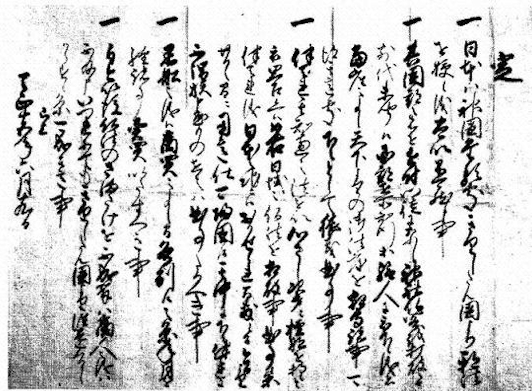 Hideyoshi Edict of expulsion of the Padres 1587 “定 日本ハ神國たる處、きりしたん國より邪法を授候儀、太以不可然候事。 其國郡之者を近附、門徒になし、神社佛閣を打破らせ、前代未聞候。國郡在所知行等給人に被下候儀者、當座之事候。天下よりの御法度を相守諸事可得其意處、下々として猥義曲事事。 伴天連其智恵之法を以、心さし次第二檀那を持候と被思召候ヘバ、如右日域之佛法を相破事前事候條、伴天連儀日本之地ニハおかせられ間敷候間、今日より廿日之間二用意仕可歸國候。其中に下々伴天連儀に不謂族申懸もの在之ハ、曲事たるへき事。 黑船之儀ハ商買之事候間、各別に候之條、年月を經諸事賣買いたすへき事。 自今以後佛法のさまたけを不成輩ハ、商人之儀ハ不及申、いつれにてもきりしたん國より往還くるしからす候條、可成其意事。 已上 天正十五年六月十九日 朱印” 吉利支丹伴天連追放令(原文は松浦史料博物館蔵の松浦家文書)